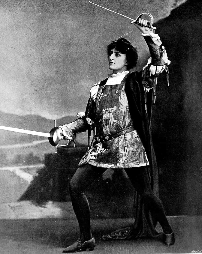 Esmé Beringer, Victorian actress and fencer